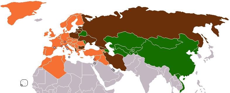 Europe rail organizations member states